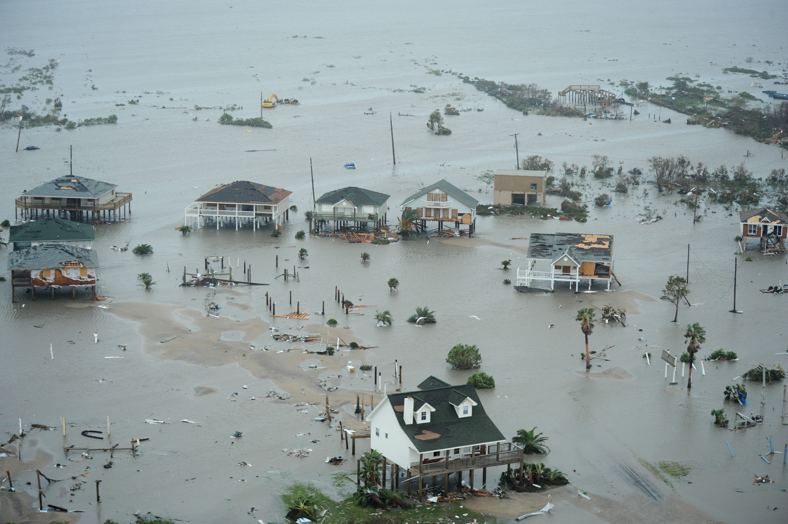 Airmen conduct search and rescue - Galveston Island, Texas, after Hurricane Ike Sept. 13.